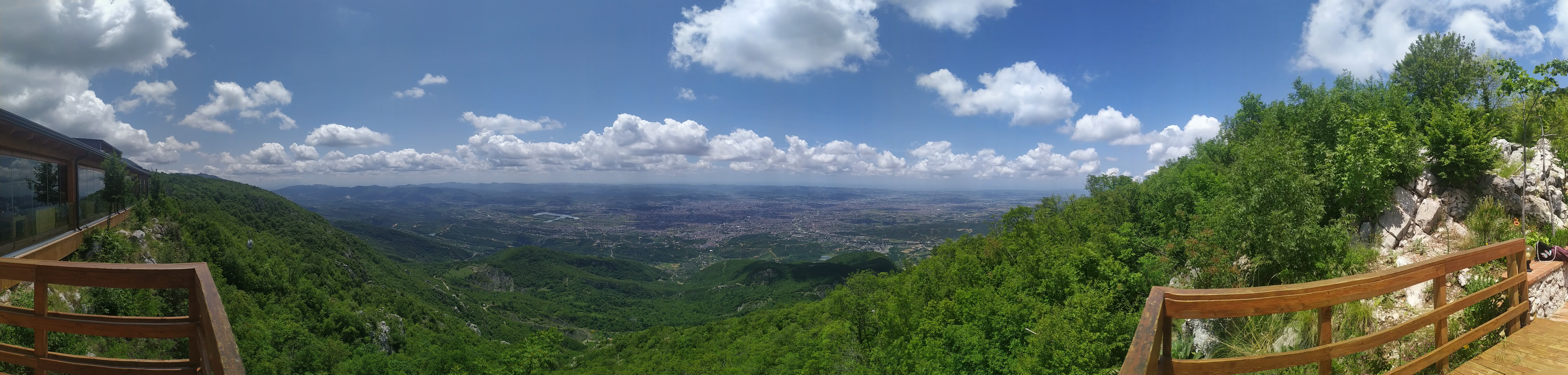 Panorama photo of Tirana from Dajti mountain